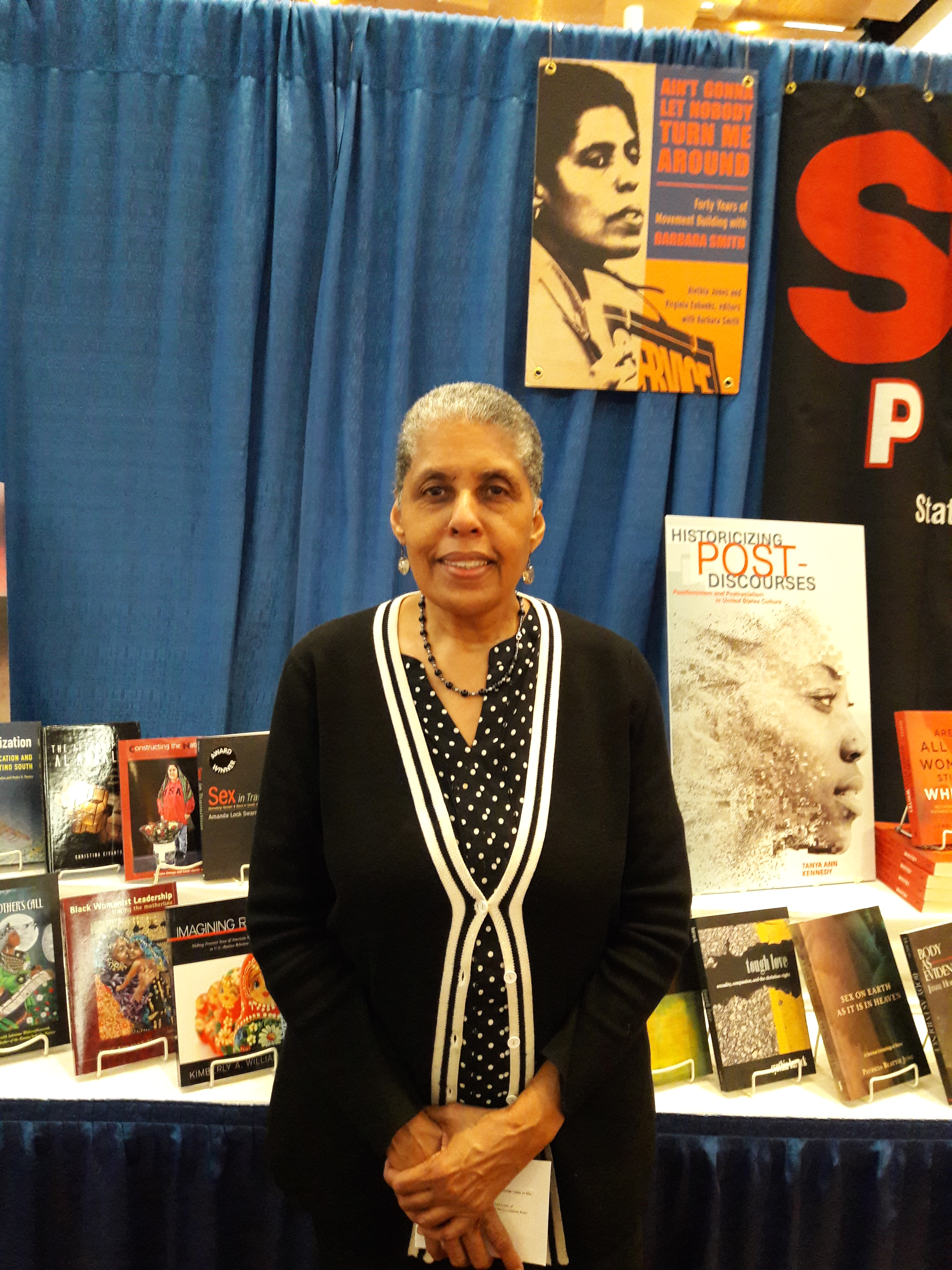 This is Barbara Smith at the 2017 NWSA conference.